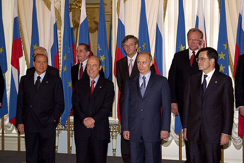 CONSTANTINE PALACE, STRELNA. Photo session of participants in Russia - EU Summit. From left to right, first row: Italian Prime Minister Silvio Berlusconi, Greek Prime Minister Konstandinos Simitis, Russian President Vladimir Putin, President of the European Commission Romano Prodi. From left to right, second row: President of Cyprus Tassos Nikolaou Papadopoulos, Prime Minister of Luxembourg Jean-Claude Juncker and Swedish Prime Minister Goran Persson.